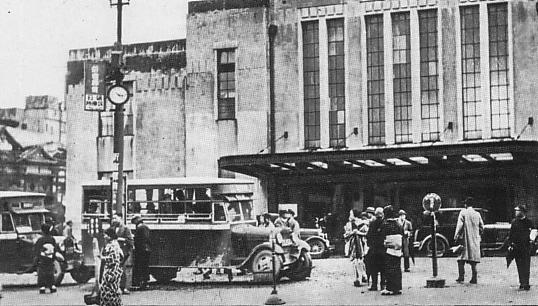 Shinjuku Station in 1932